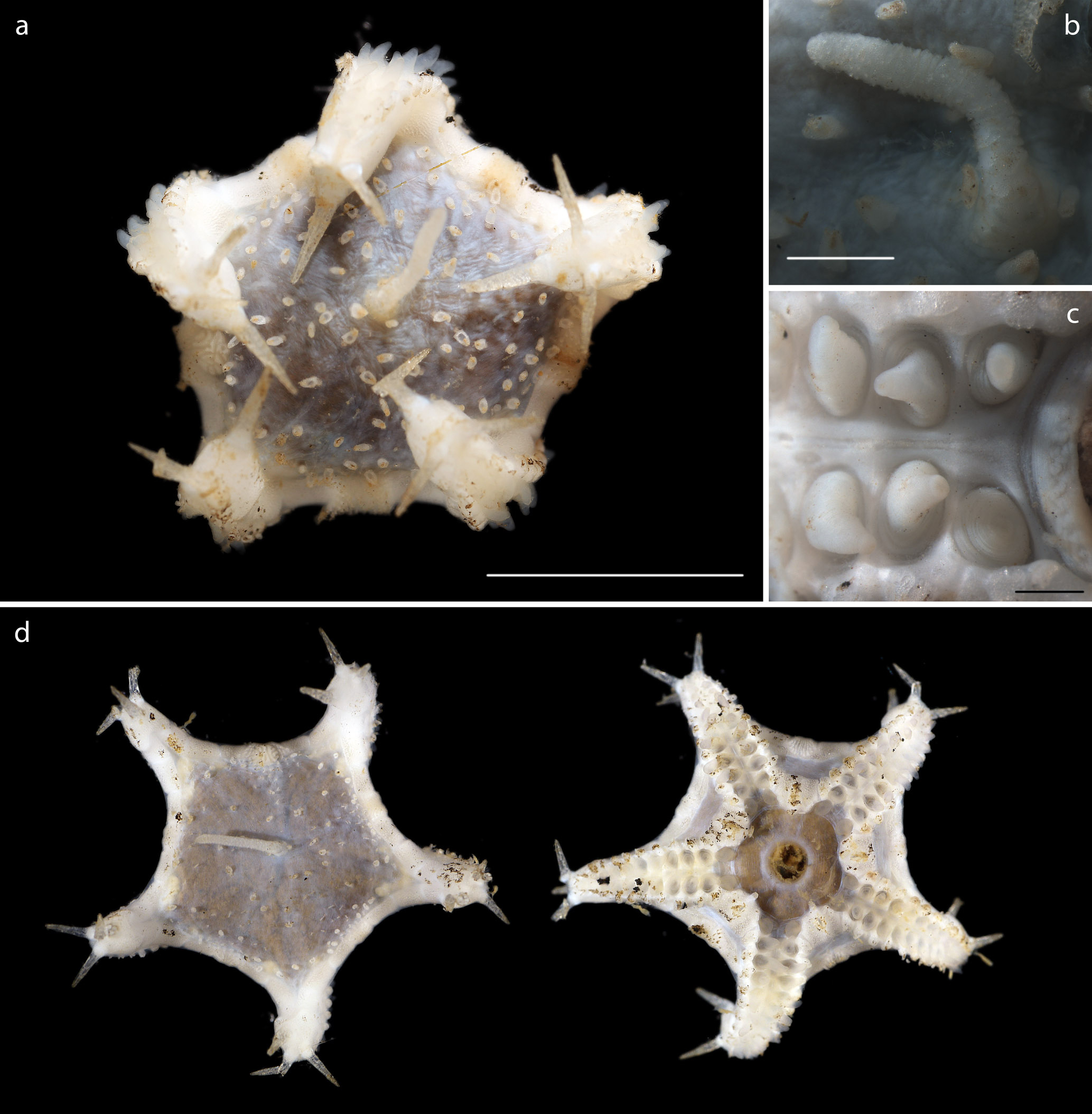 Porcellanaster ceruleus Wyville Thomson, 1878. (a) Specimen NHM_267. (b) Detail of medial antenna. (c) Detail of tube feet. (d) Specimen NHM_253. Scale bars (a) 5mm, (b) 1mm, (c) 0.5mm. Location Country code Decimal latitude 13.824117 Decimal longitude -116.53425 Depth 4054 Geodetic datum WGS84 Locality UK Seabed Resources Ltd exploration claim UK-1 Water body Pacific Event date 2013-10-14T00:00:00.000+0000